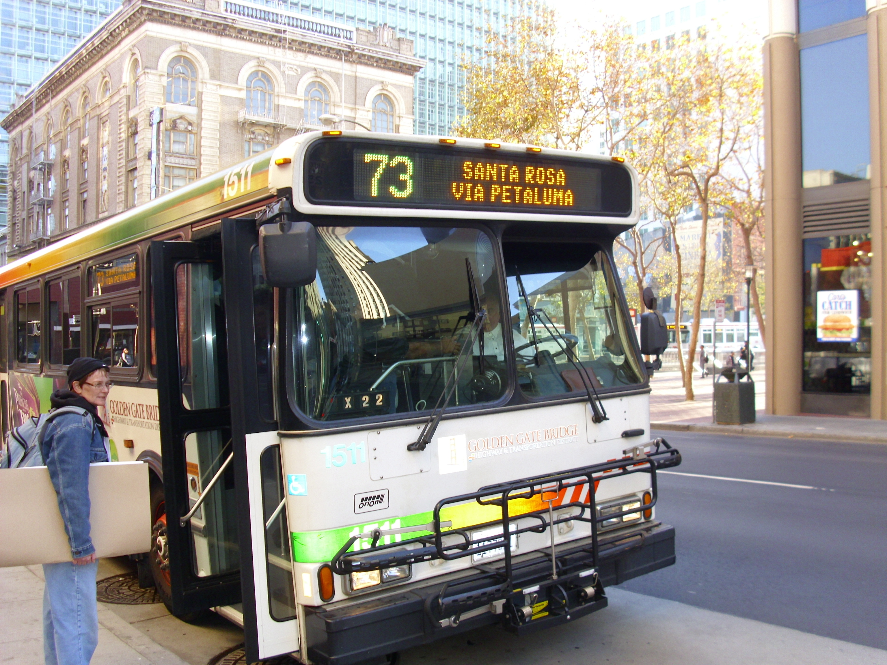 A Golden Gate Transit Orion V bus (body number 1511) operating as a Route 73 to Santa Rosa at the San Francisco Civic Center.